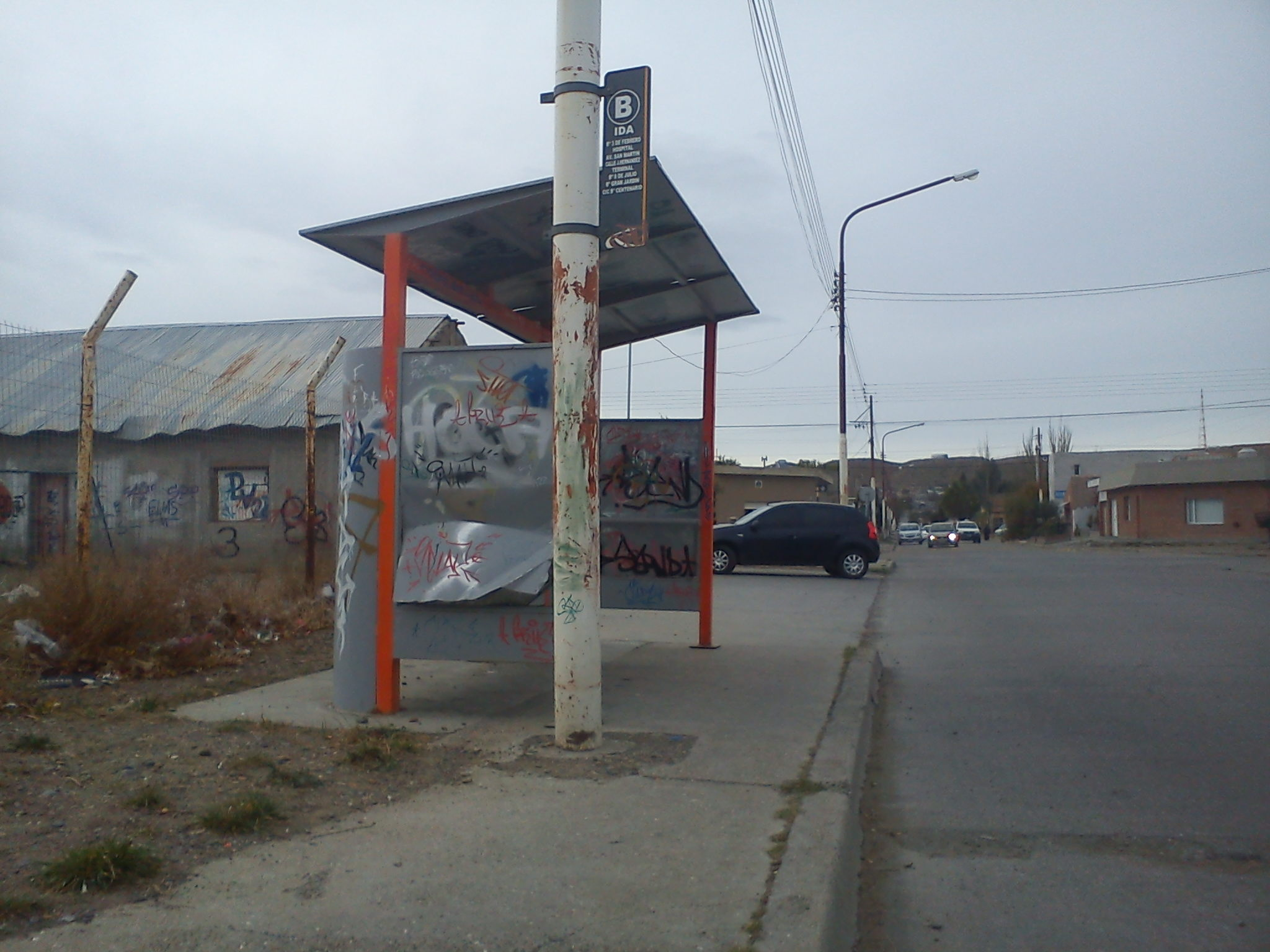 Parada de Autobuses Caleta Olivia